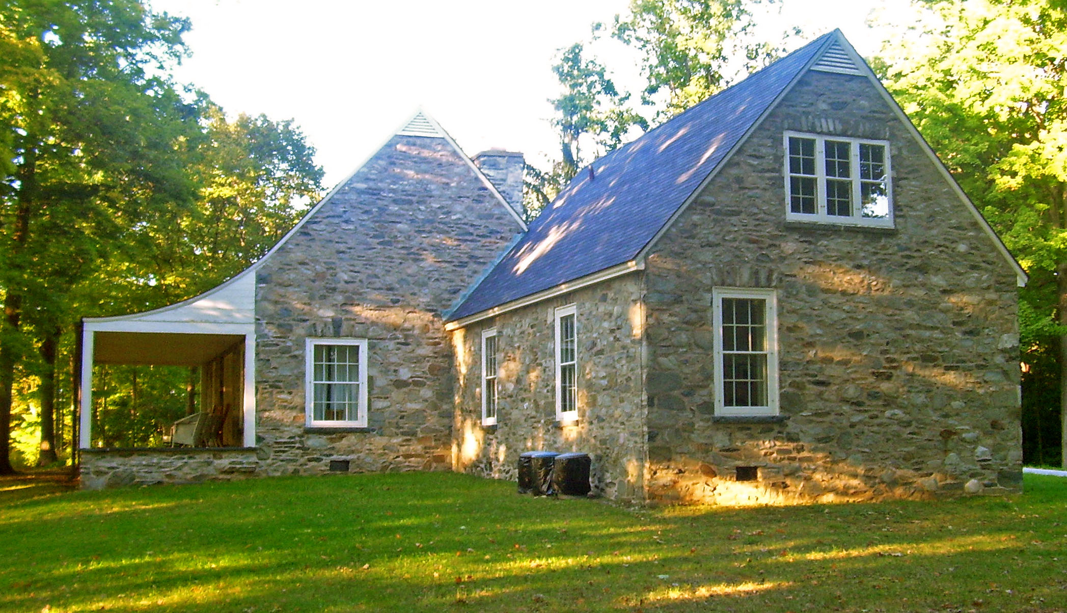 Top Cottage, one of the first fully disabled-accessible buildings in the United States, built by Franklin D. Roosevelt as a retreat in Hyde Park, NY. A National Historic Landmark